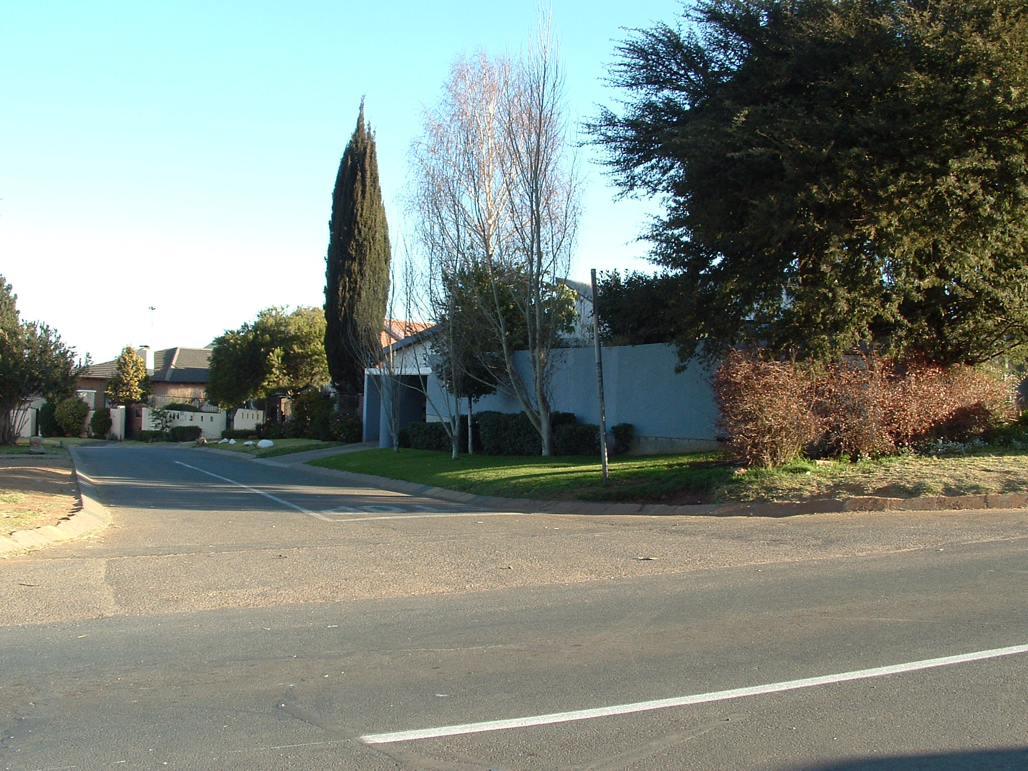 Desmond Tutu's House, just round the corner from Nelson Mandela's place.